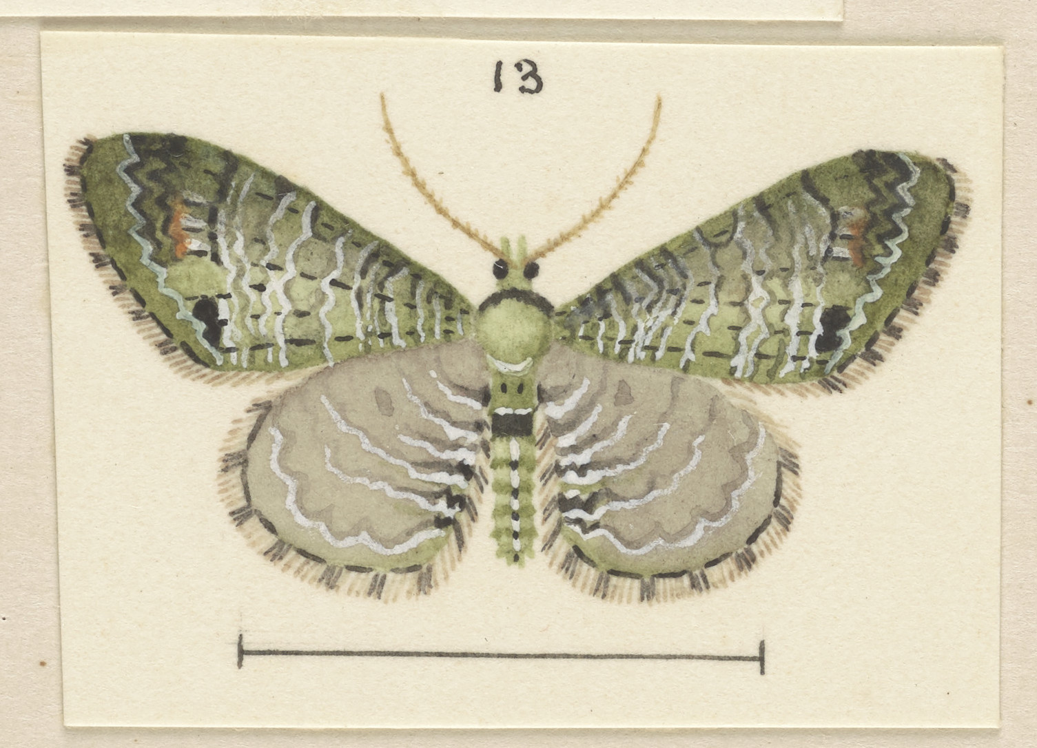 Drawing by George Hudson. Plate LVI. A supplement to the butterflies and moths of New Zealand.